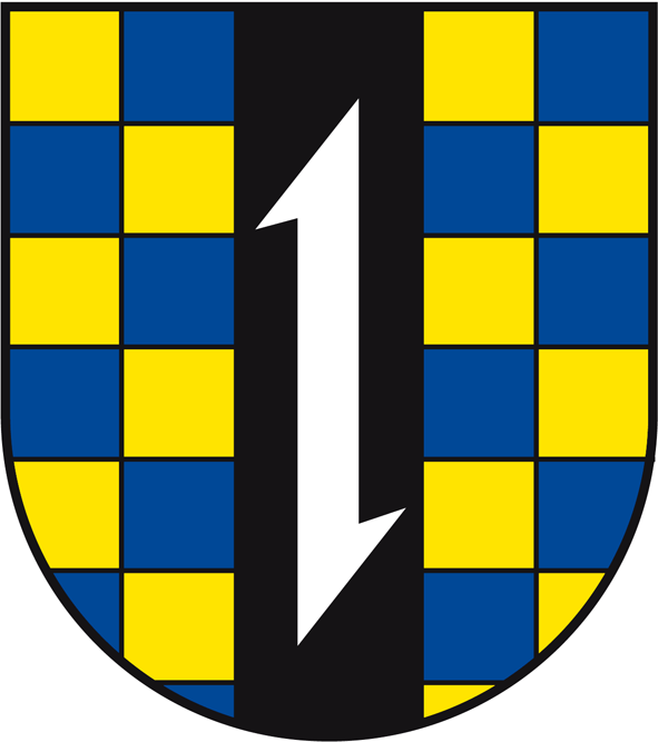 Coat of arms of Metzenhausen